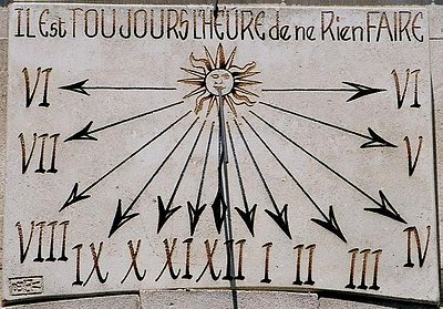 Sundial. It is always time to do nothing. Author: Greudin, 2003 License: Public Domain Image:Sundial-st-remy-of-provence.jpg